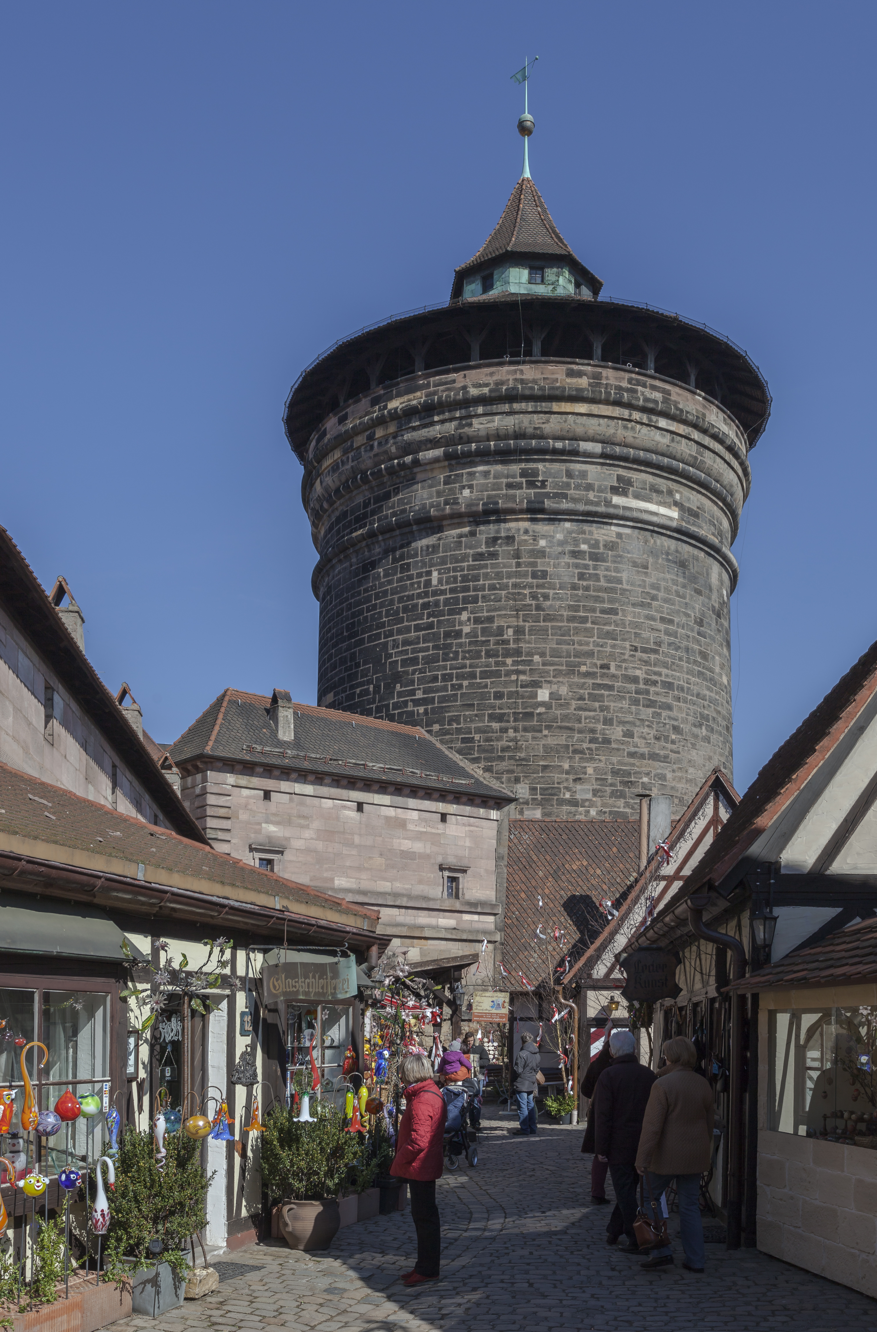 Craftmen Courtyard, Nuremberg, Germany